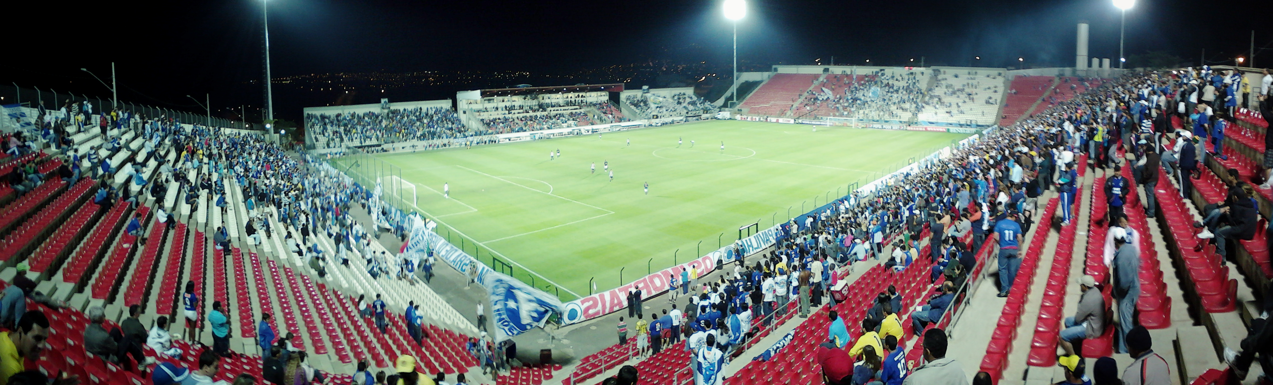 Panoramic photo of Alligator's Arena, at Sete Lagoas, MG, Brazil